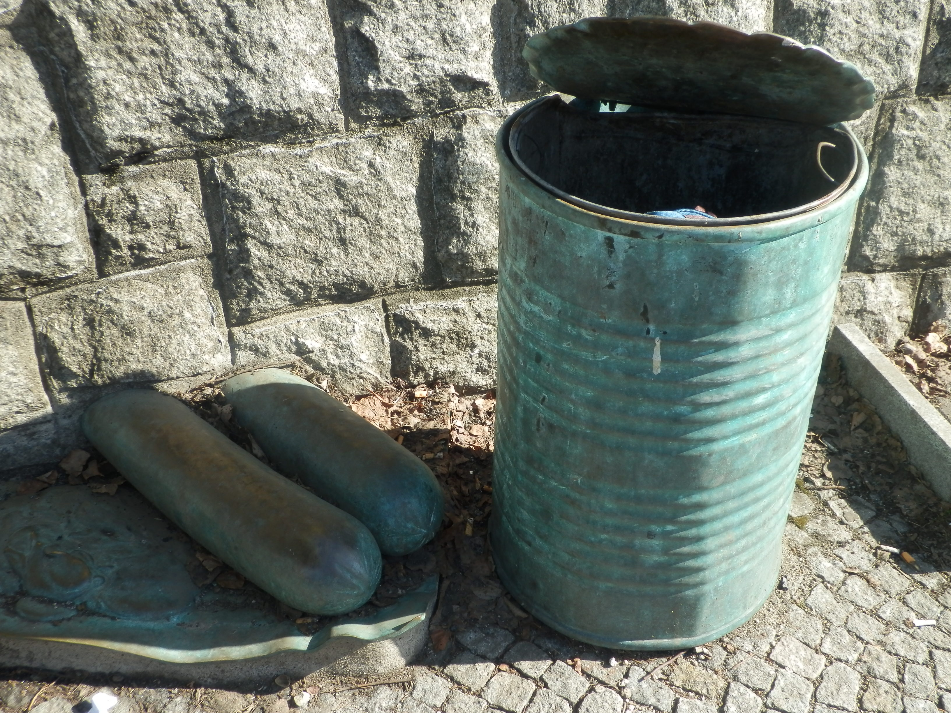 The feast of Giants Stop Liberec Czech Republic 4